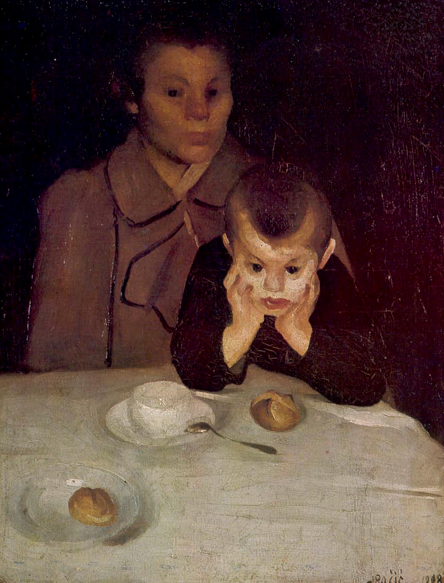 „Mother and a child“, oil on canvas (90,2x68,4 cm) from 1908 by Croatian painter Josip Račić (died in 1908.)